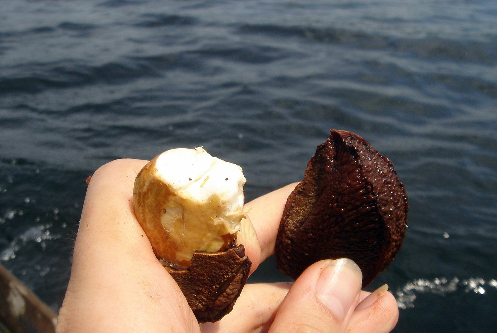 Shelled and unshelled seeds of the Brazil nut tree. Collected near Jauaperi River, Lower Rio Branco-Rio Jauaperi Extractive Reserve, Brazil